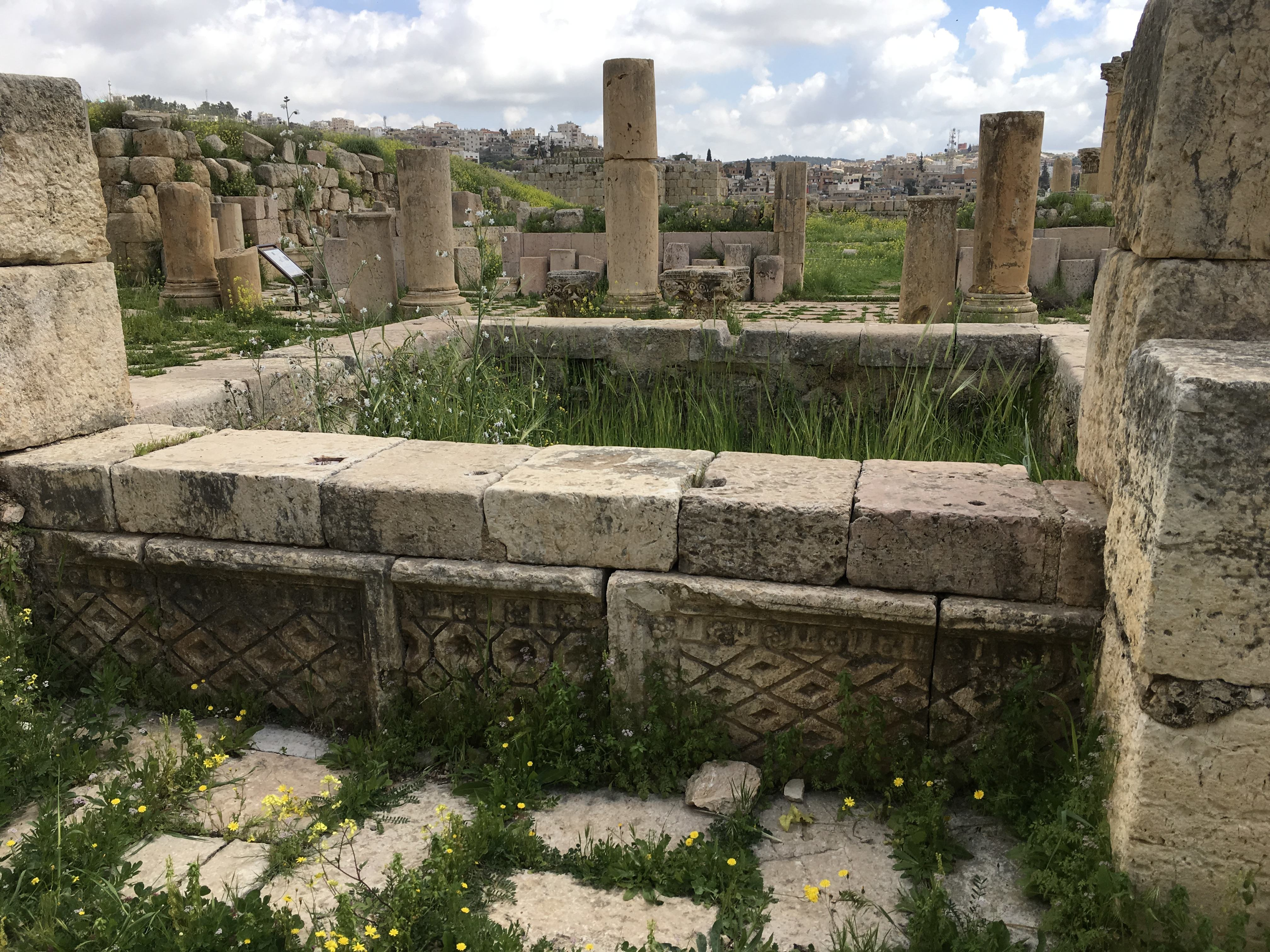 Fountain Court (Jerash)